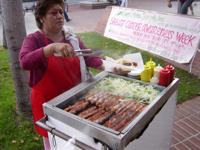 Street food vendor in Los Angeles, she is serving a popular style of bacon-wrapped hot dog served around sporting events, concerts, and night-clubs in the LA area.